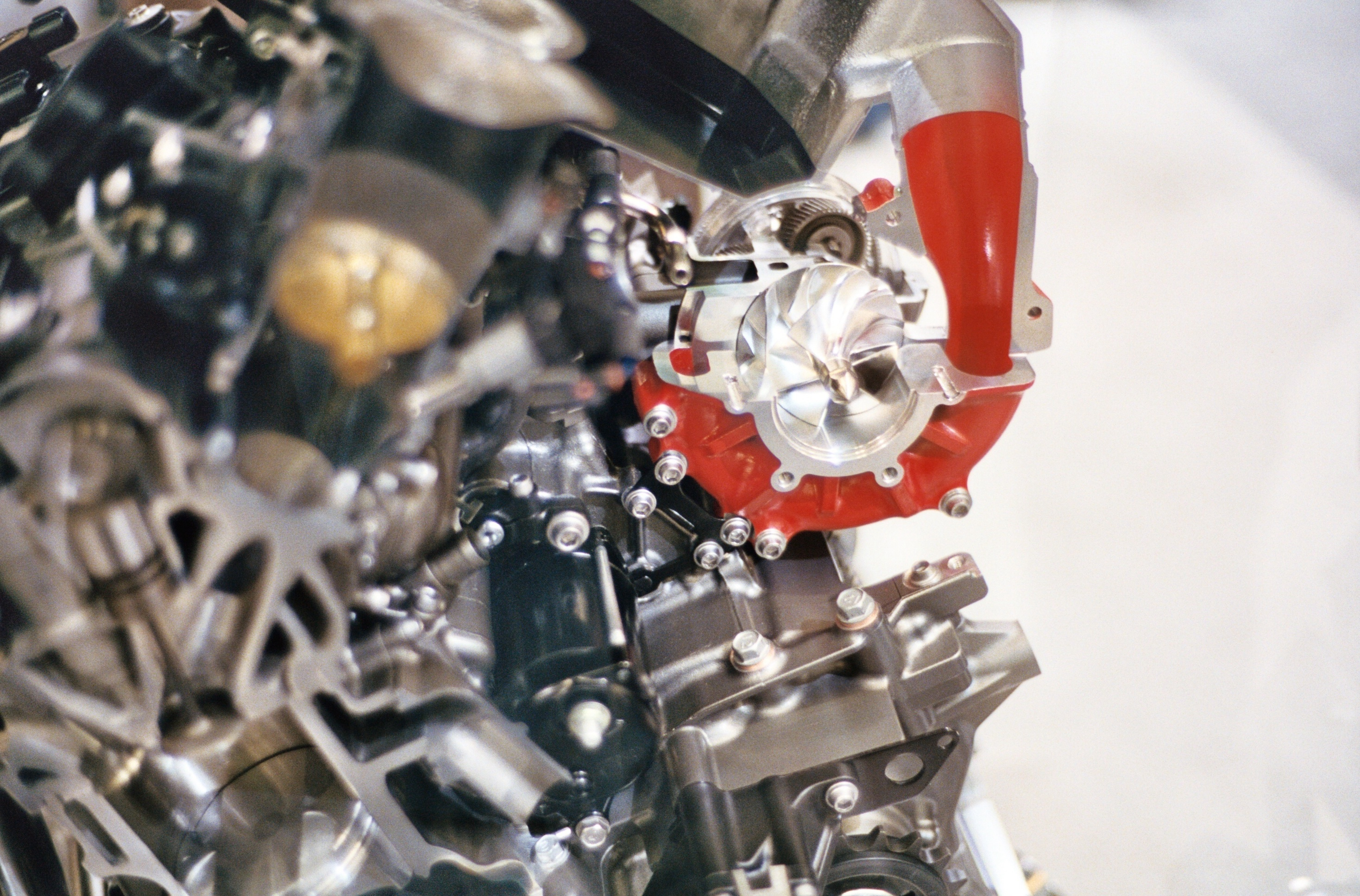 Kawasaki Ninja H2R engine cutaway at the 2014–2015 Seattle International Motorcycle Show in the Washington State Convention Center